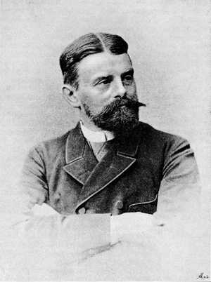 German poet Detlev von Liliencron (1844-1909)